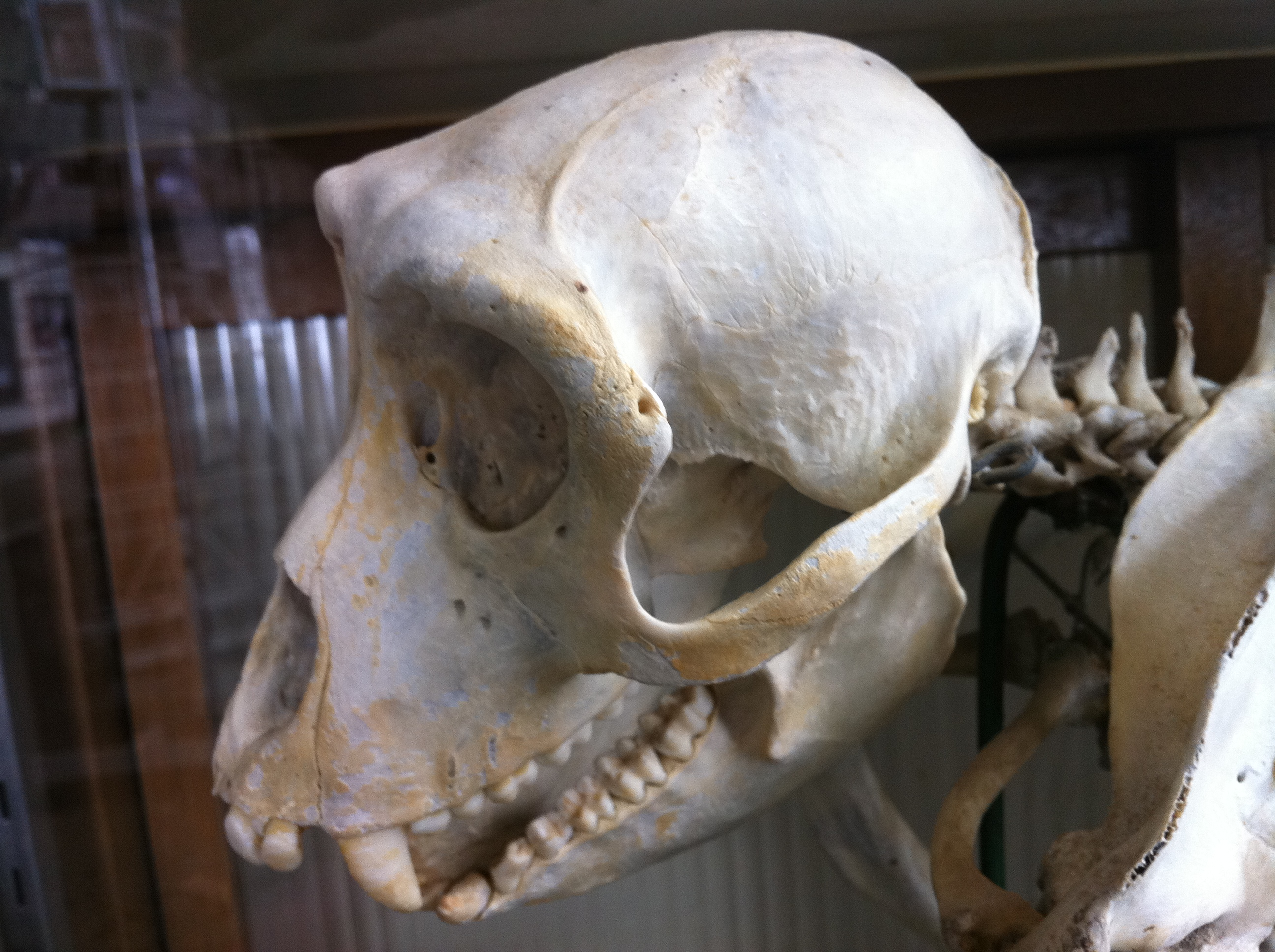 Skull of a female Japanese Macaque (Approx 12) as seen in a shop near Jigokudani hotspring in Nagano. (ニホンザルの頭蓋骨）